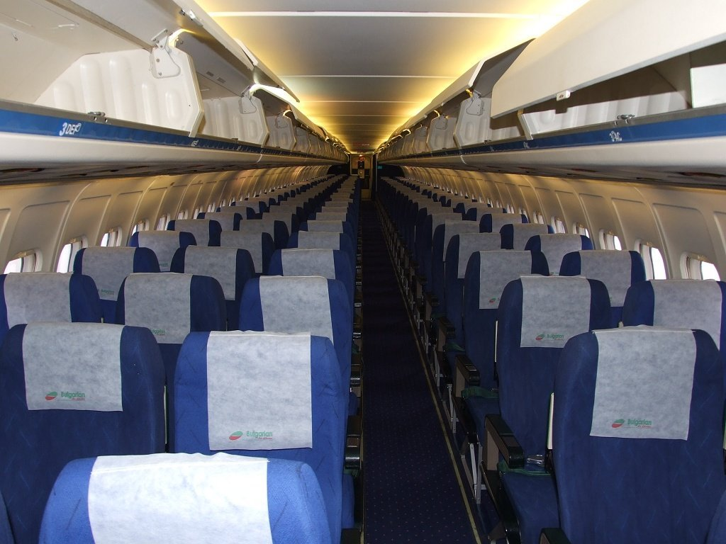 MD-82